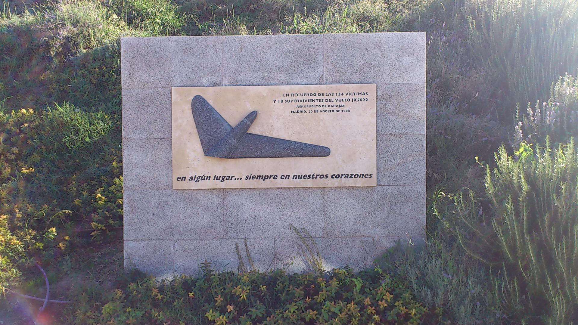 Memorial monument of the passengers of Spanair Flight 5022 in the car park of Campo de las Naciones, Madrid